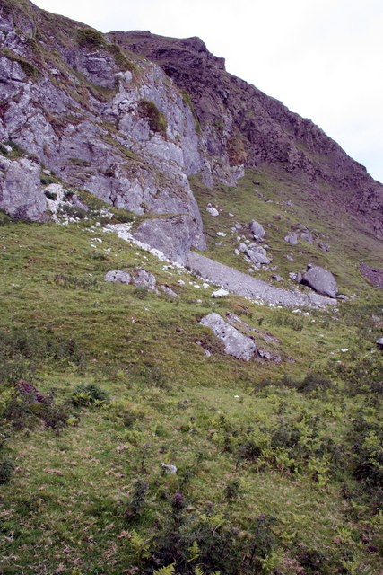 Scawt Hill The white rocks here are chalk, which is overlain by dark volcanic rocks. The heat of the lava has altered the underlying chalk, producing some unusual minerals.